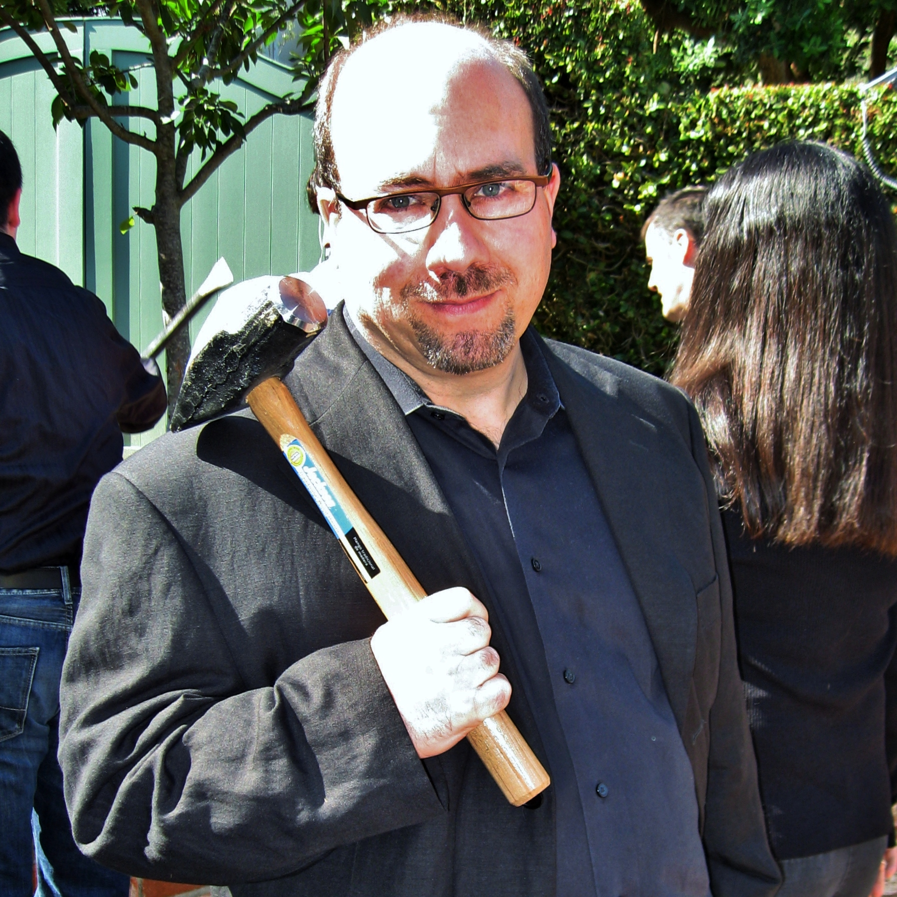 Craig Newmark, American Internet entrepreneur best known for being the founder of the San Francisco-based website craigslist.